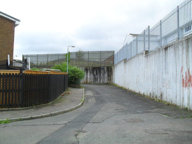 End of the Ardoyne Road End of the line at Ballysillan.